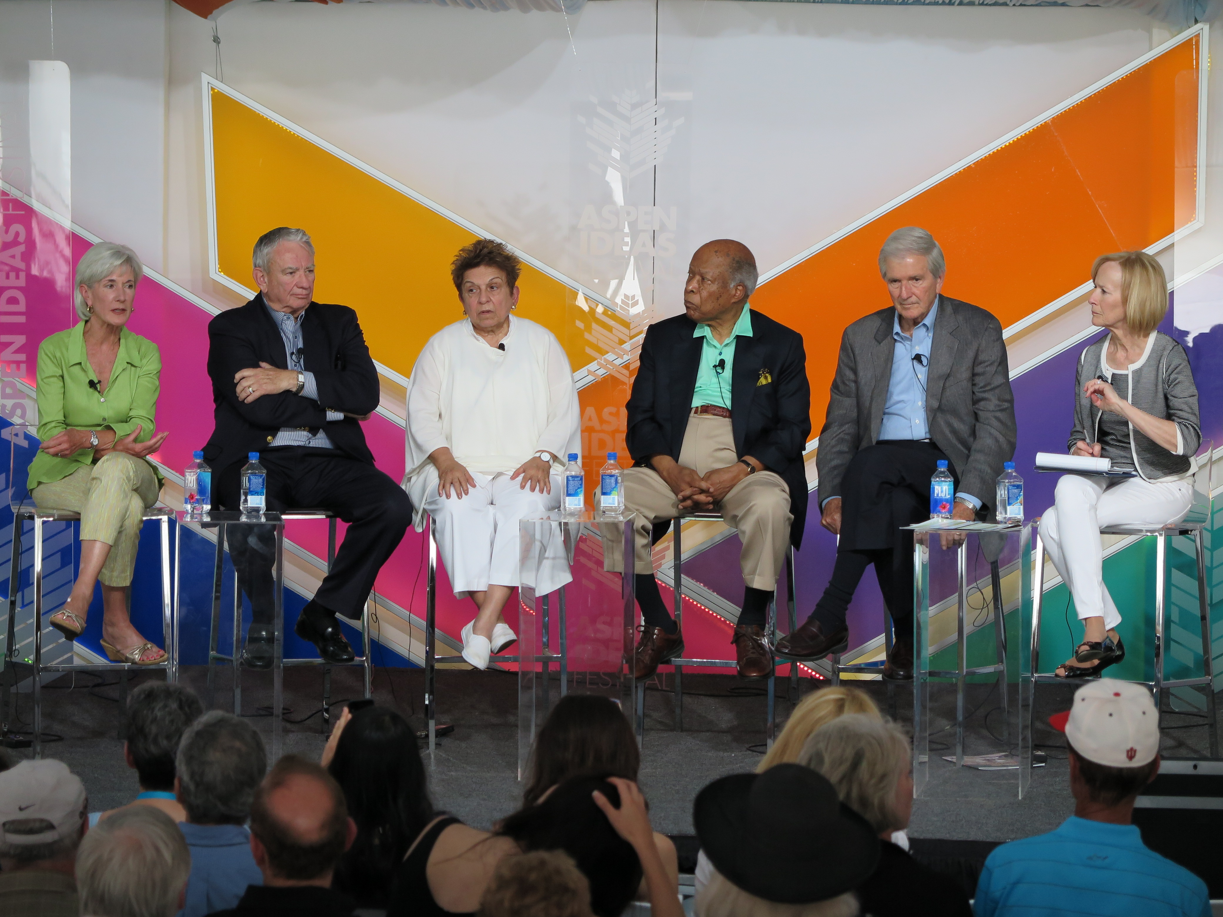 This panel was titled "Happy Birthday Medicare and Medicaid - Six HHS Secretaries Celebrate Together" at Spotlight Health Aspen Ideas Festival 2015. From left to right - Kathleen Sebelius, Tommy Thompson, Donna Shalala, Louis W. Sullivan, F. David Mathews, and panel moderator Judy Woodruff. Margaret M. Heckler was scheduled to attend but was not present.